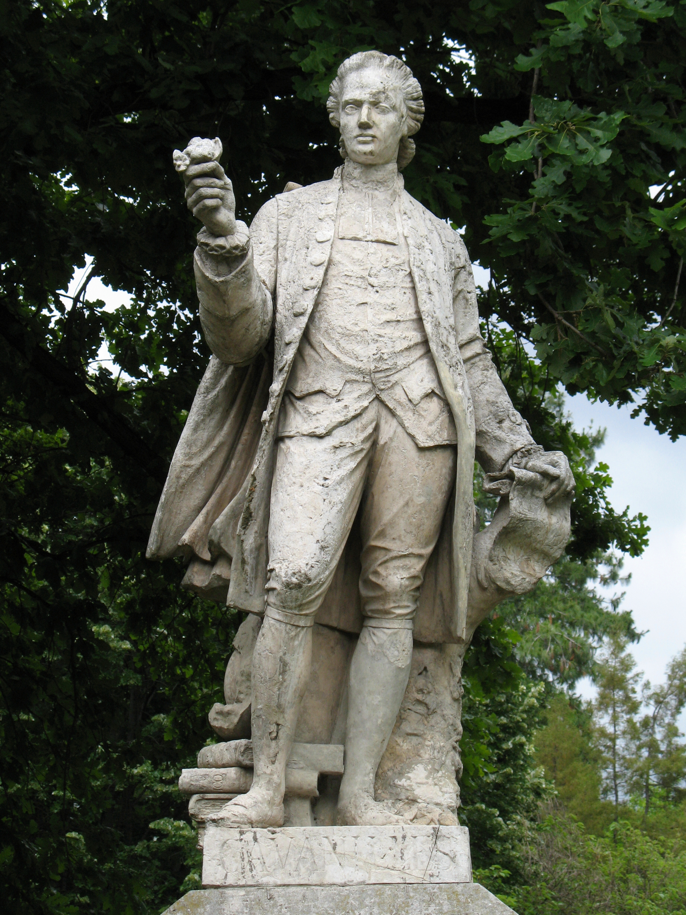 Statue of the Spanish botanist Antonio José Cavanilles (1745-1804) at the Royal Botanical Garden of Madrid, by the sculptor José Pagnucci y Zumel